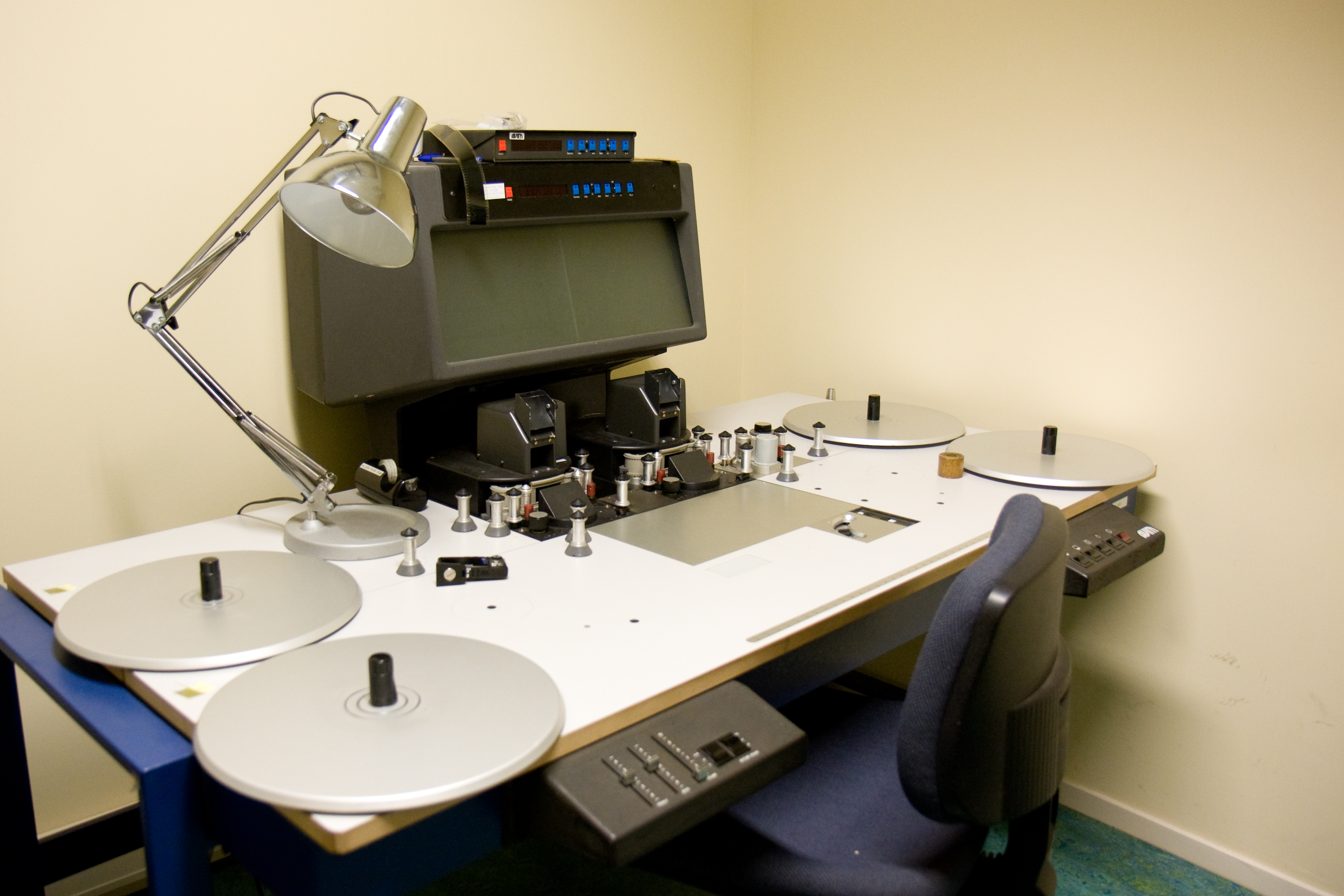 Film editing table